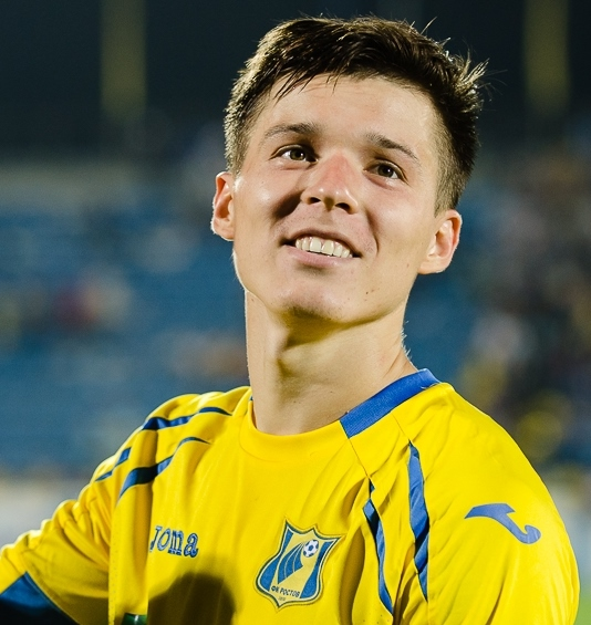 Dmitry Poloz